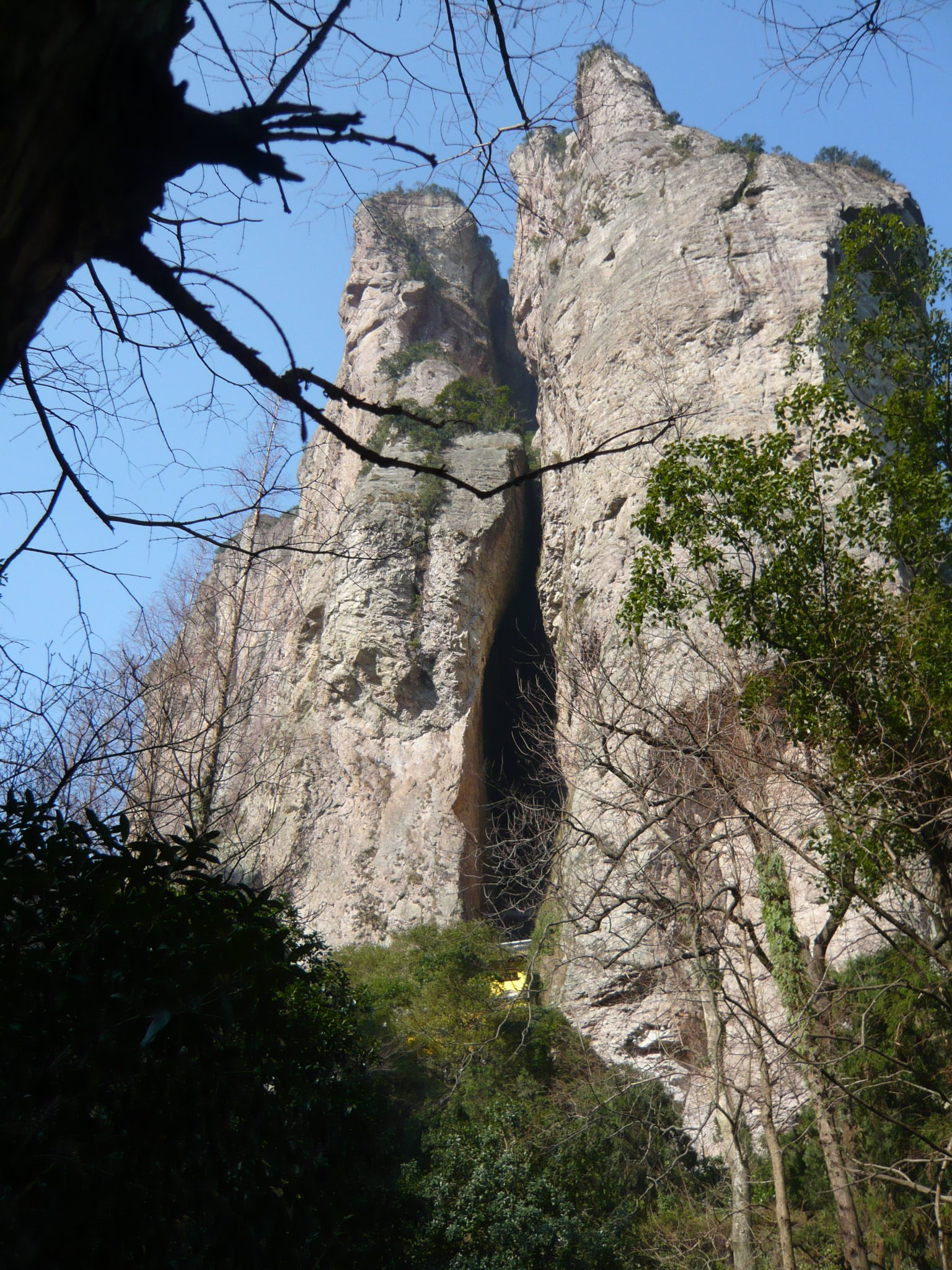 Clasped Palm Peak in the Lingfeng scenic area, Yandangshan, Zhejiang, PR China. Guanyin (Avalokitesvara) Cave is the big crack in the middle.